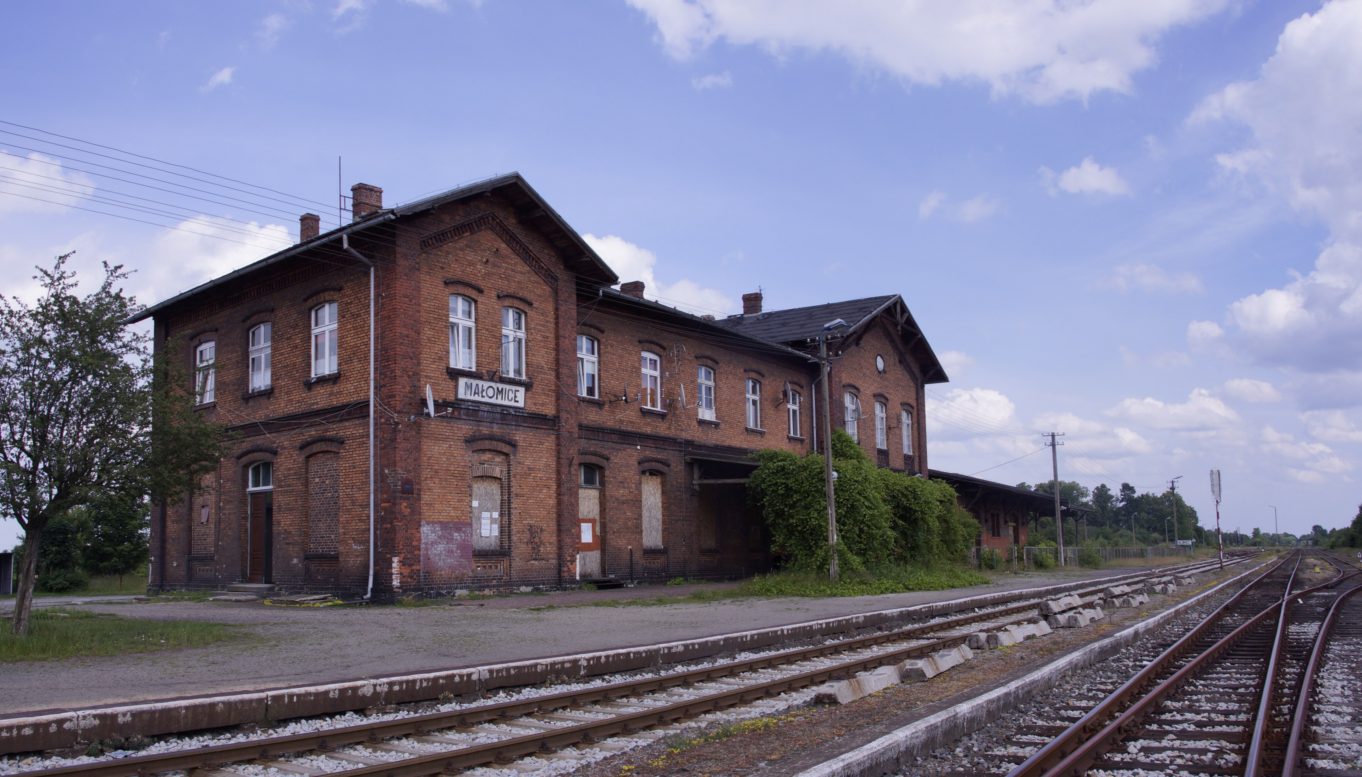 Małomice, Poland - railway station